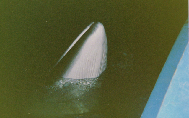 A minke whale (Balaenoptera acutorostrata) near the ship: Alcide C. Horth in summer 1989. St.Laurence river front Bic, near Rimouski, Qc, Canada.